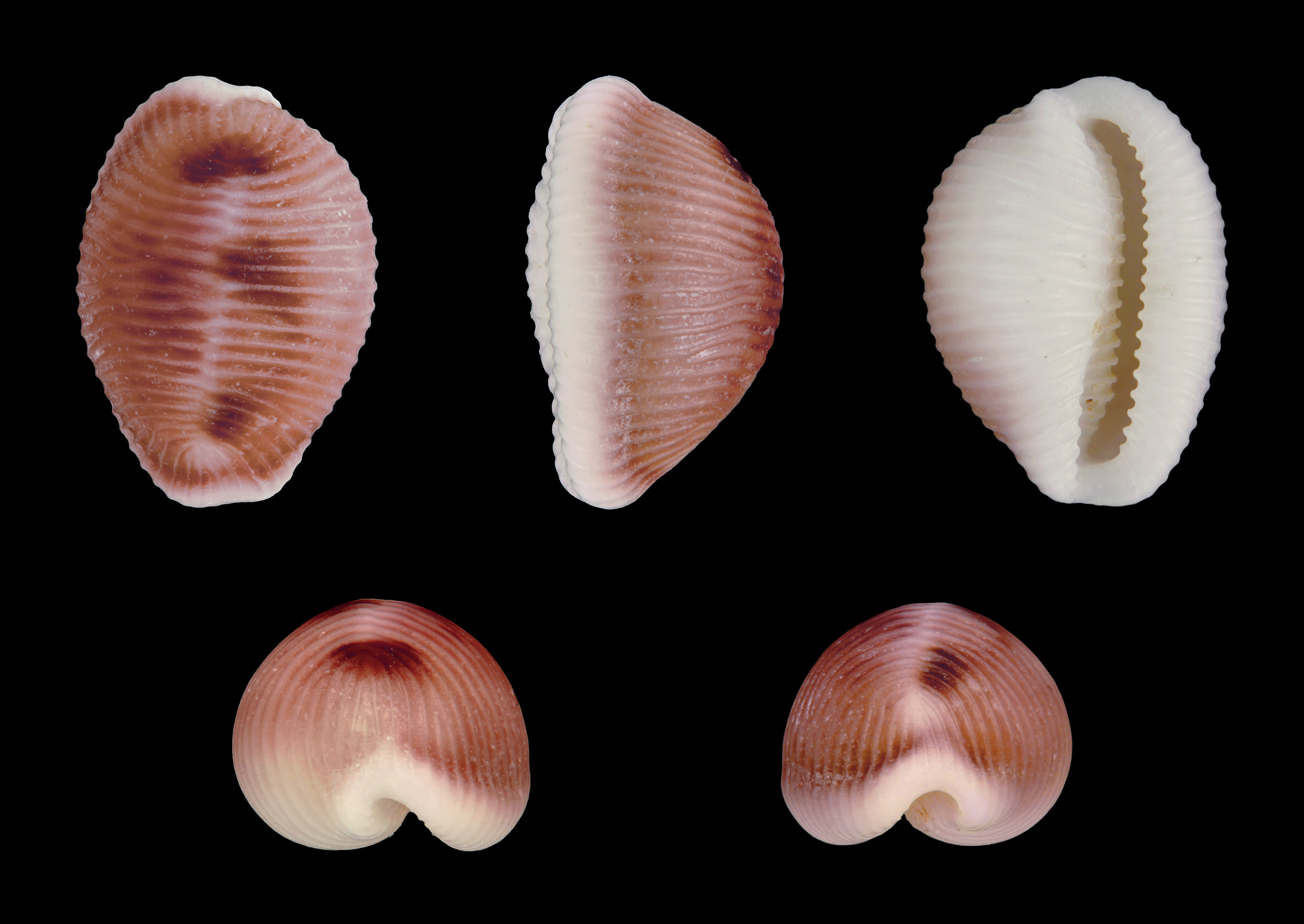 Spotted Cowry; Length 0.9 cm; Originating from Falcon, 200 km south of Dakhla, Western Sahara; Shell of own collection, therefore not geocoded. Dorsal, lateral (right side), ventral, back, and front view.